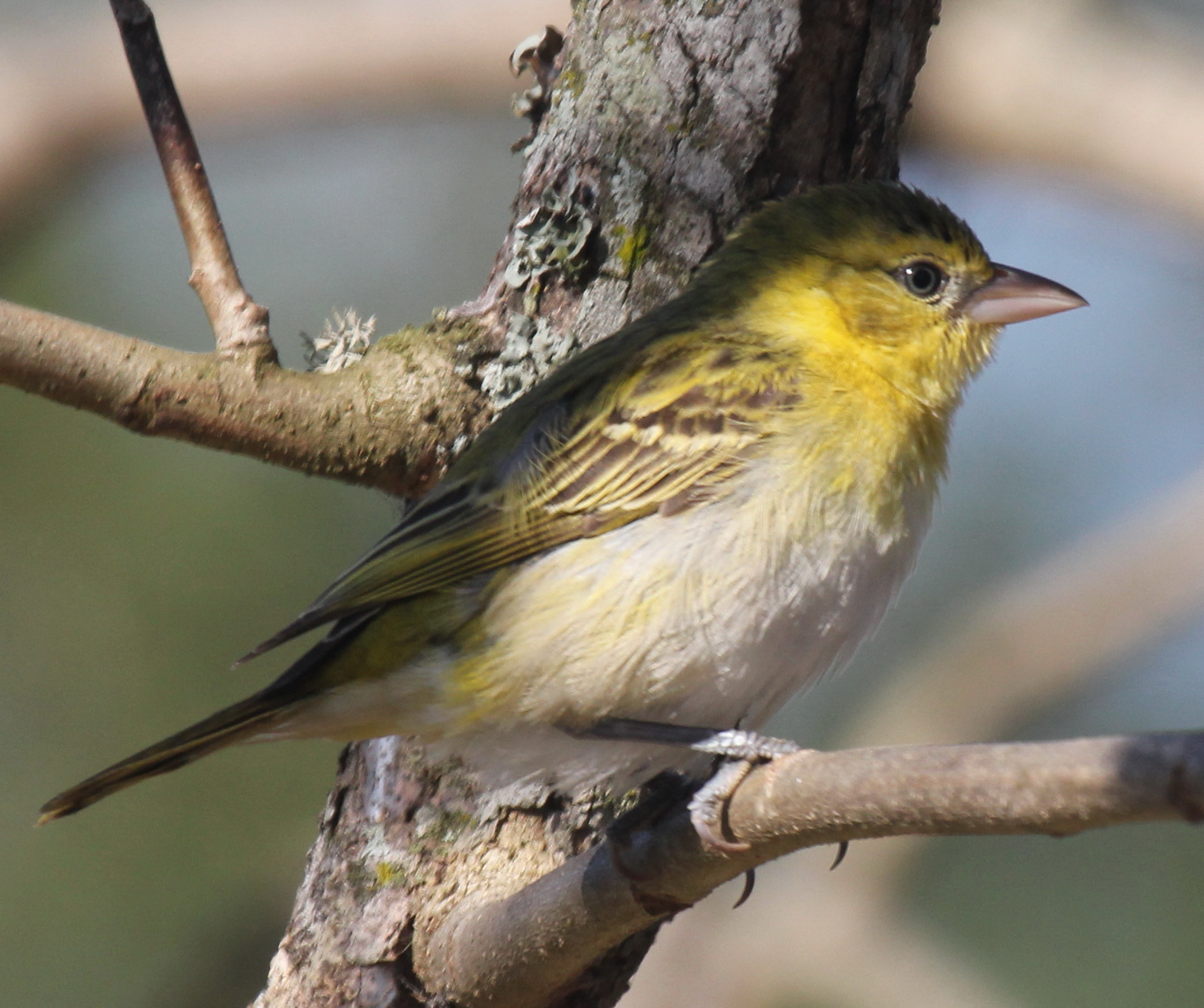 Female Lesser Masked Weaver at Kruger National Park, South Africa